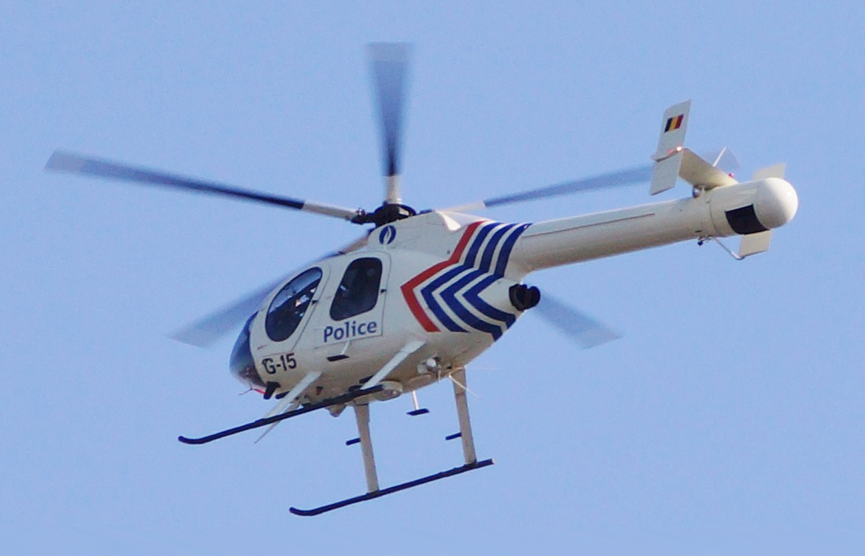 Belgium Police 520N helicopter